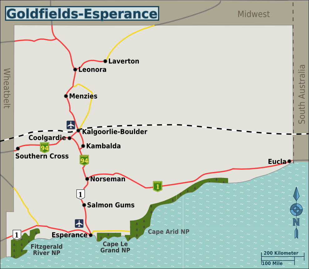 Goldfields-Esperance region map.